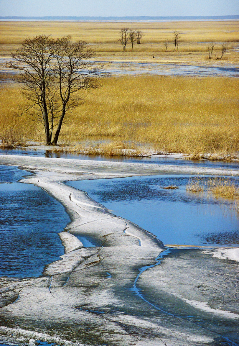 Kasari, Matsalu National Park, Lääne County, Estonia